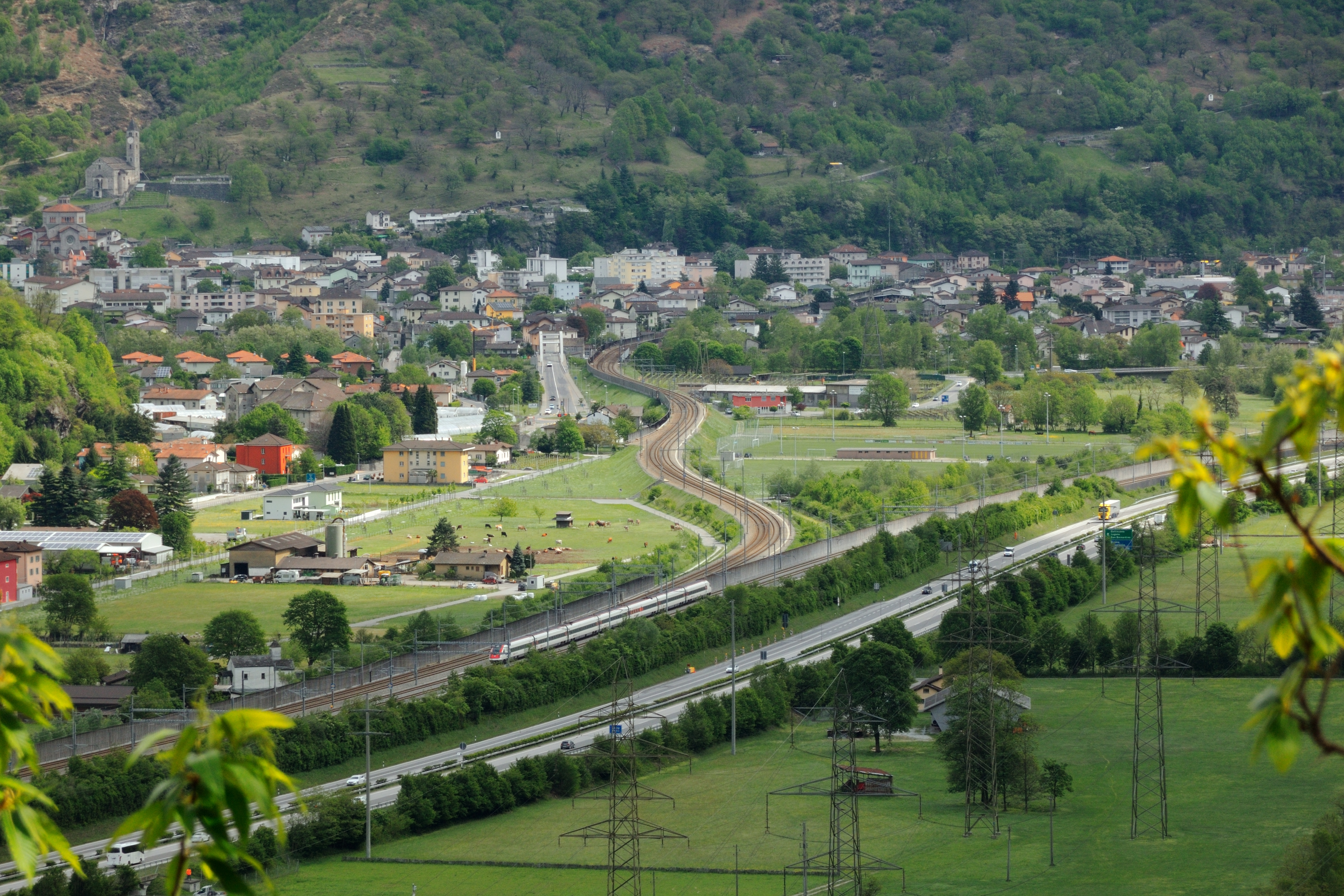 19 April 2017 weather at Pollegio, looking south (southern approach to the Gotthard Base Tunnel). Partly sunny, maximum temperature: ~12°C. This image is part of a series showing the influence of the Alps on European climate.